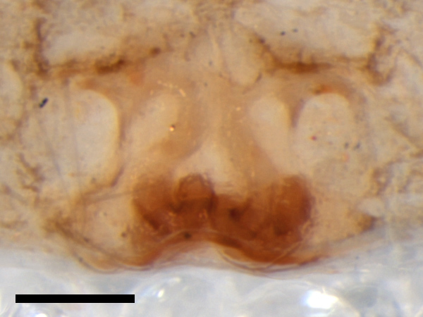 Epigyne of female holotype of Zygoballus maculatipes jumping spider (collected from the Wilcox camp on the San Lorenzo River in Panama). Ventral view under alcohol. Scale equals 0.1 mm.